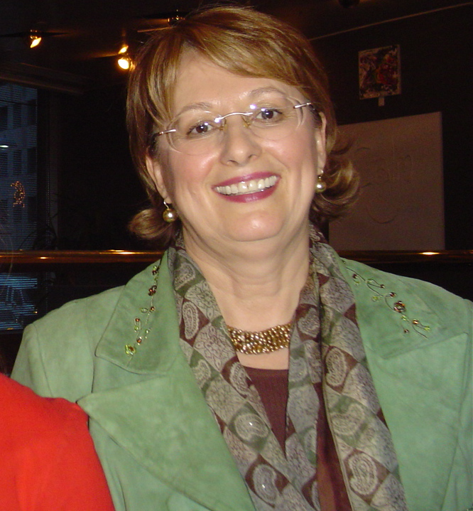 Deputy of Adana, Member of Republican People's Party Assembly (CHP), Vice President of EU Harmonization Commission, Vice President of the Turkish Group of IPU, Member of Population and Development Group